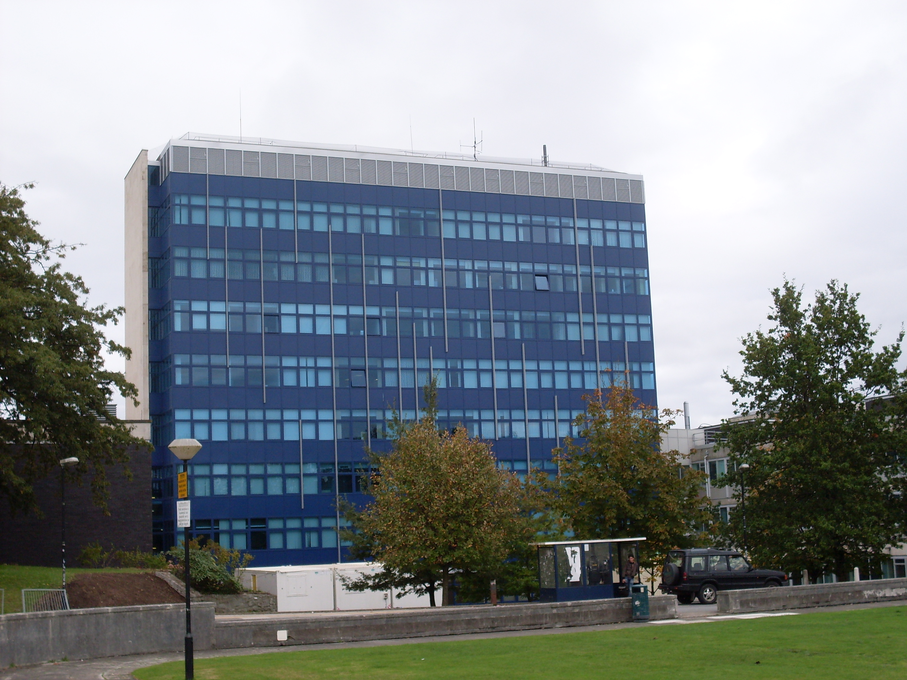 Faraday Tower at Swansea University - Home to the Colleges of Engineering and Science